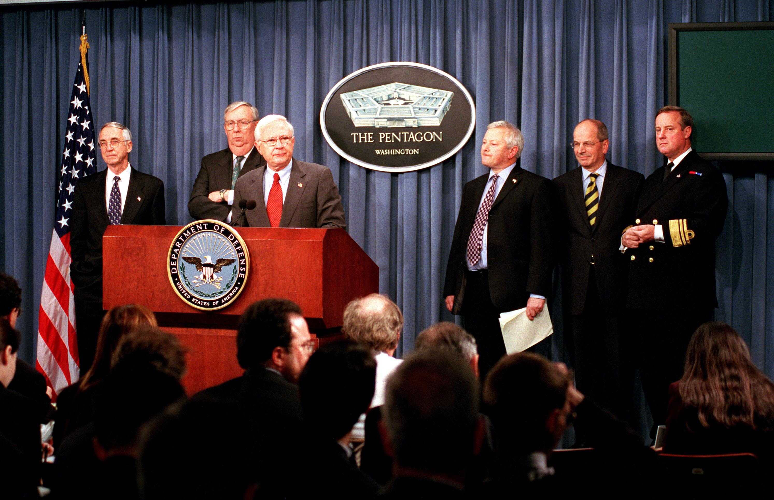 Under Secretary of Defense for Acquisition, Technology and Logistics Edward C. "Pete" Aldridge Jr. (center) announces the decision to proceed with the Joint Strike Fighter program at the Pentagon on Oct. 26, 2001, moving the program to the System Development and Demonstration phase. Reflecting the multi-service, multi-national interest in the plane, Aldridge was joined for the announcement by Secretary of the Navy Gordon England (far left), Secretary of the Air Force James G. Roche (2nd from left), United Kingdom's Minister of Defence for Procurement Lord Willy Bach, National Armaments Director and Chief of Defence Procurement Sir Robert Walmsley, and Vice Adm. Sir Jeremy Blackham, deputy chief of the Defence Staff (Equipment Capabilities).